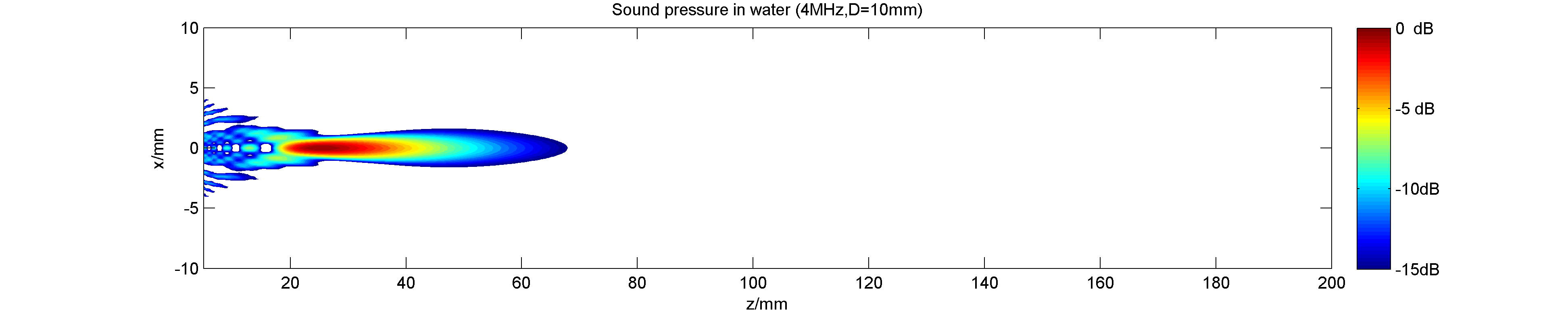 Soundfield of a focused ultrasound transducer, f=4MHz, D=10mm (aperture), R=30mm (curvature radius), water